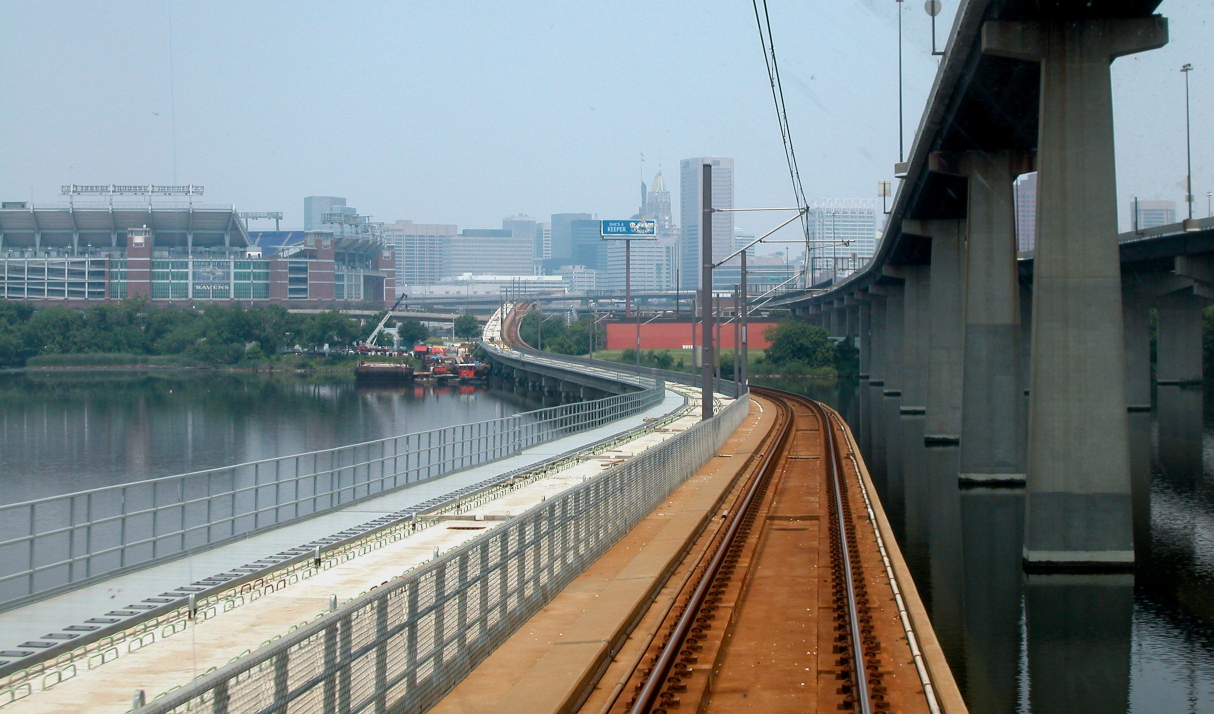 Construction work in progress in June 2003 to add a second track to the Baltimore Light Rail bridge over Ridgley's Cove (Middle Branch of the Patapsco River)